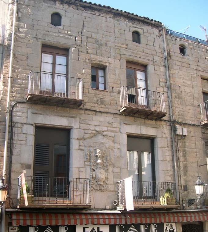 Palau dels Peguera in Berga, Berguedà, Catalonia